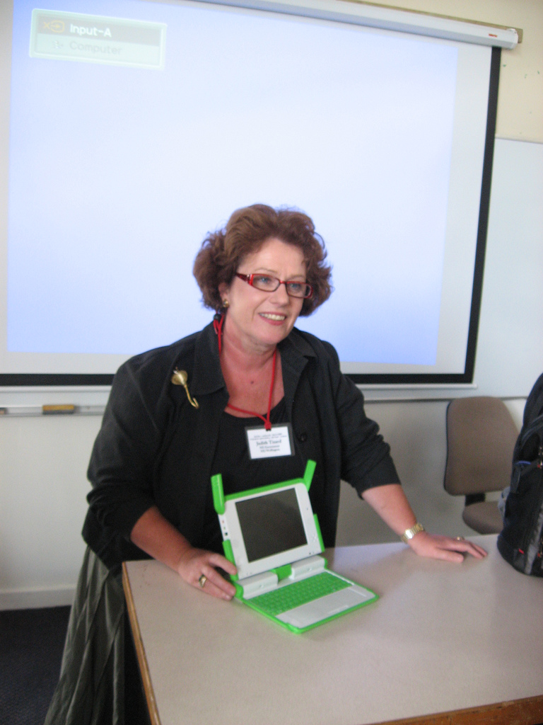 Judith Tizard with a One Laptop Per Child laptop, at the Kiwi Foo Camp.